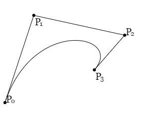 A bezier curve, drawn in html5 canvas